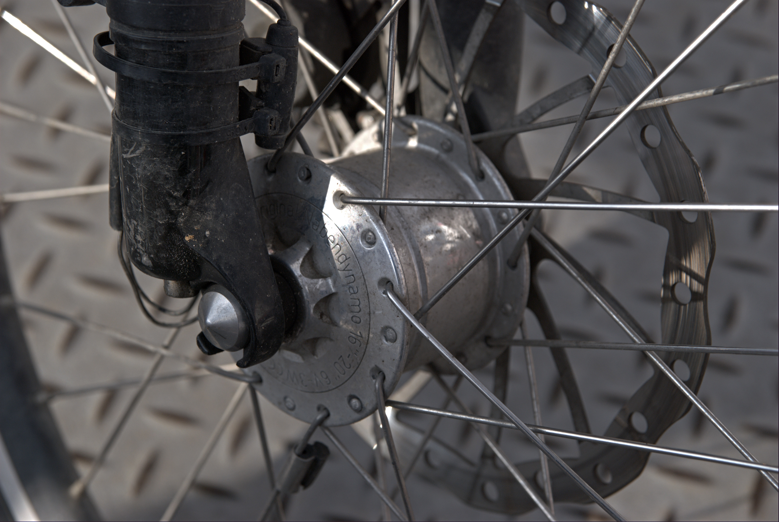 Schmidt original hub dynamo for disc brake on 20" rim